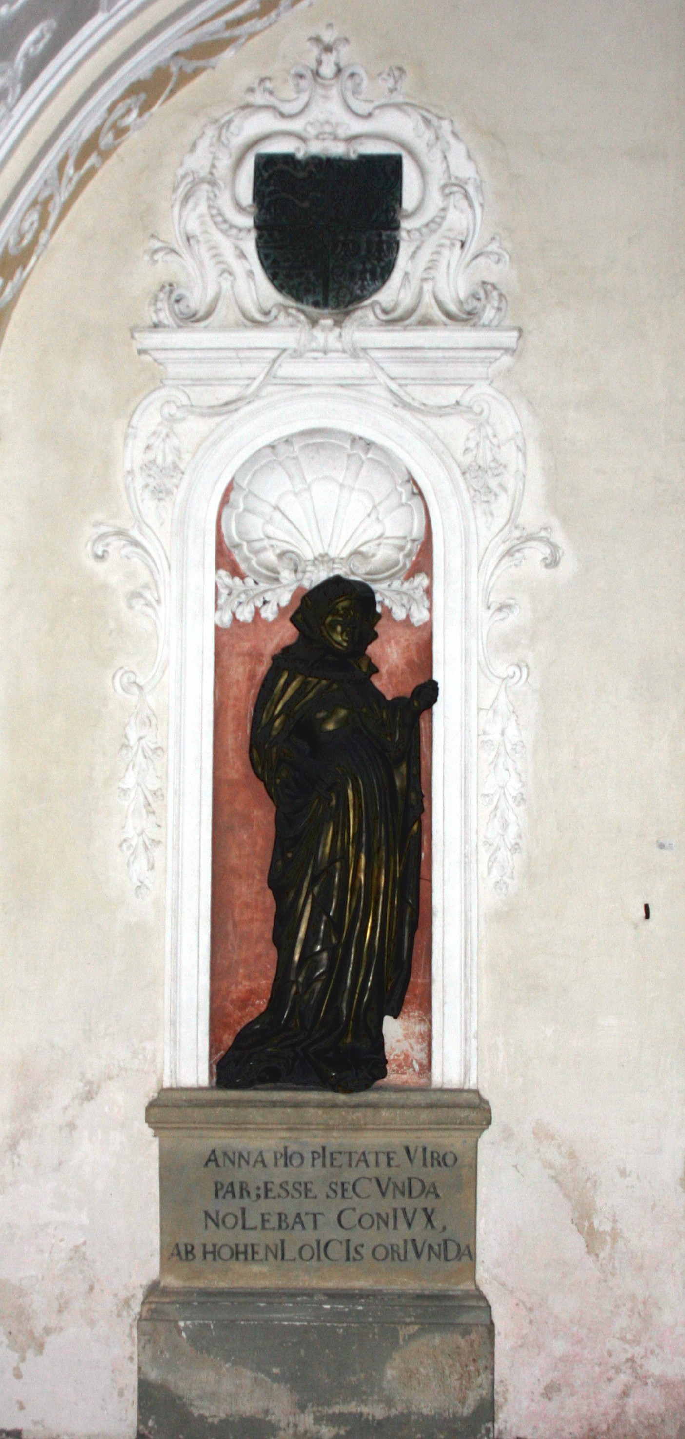 Statue of Anna von Hohenlohe, first wife of Konrad (IX.) von Weinsberg, in the church of Schöntal monastery